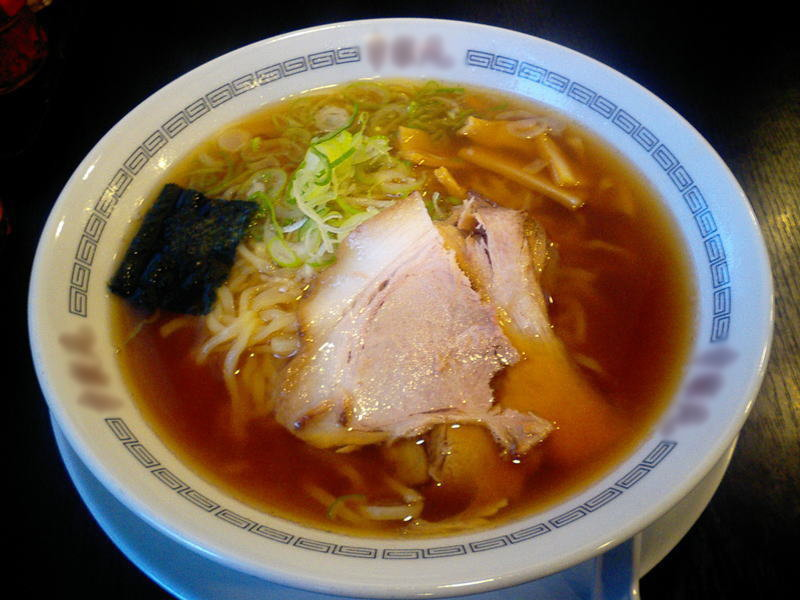 "Tokyo Ramen". Japanese traditional ramen, seen in a ramen-noodles store in Japan. Soup is a soy sauce taste.